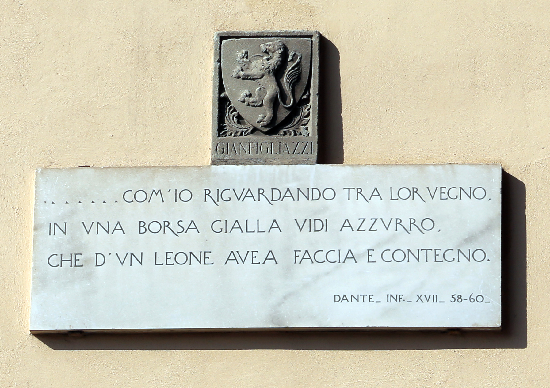 Plaques to Dante Alighieri in Florence